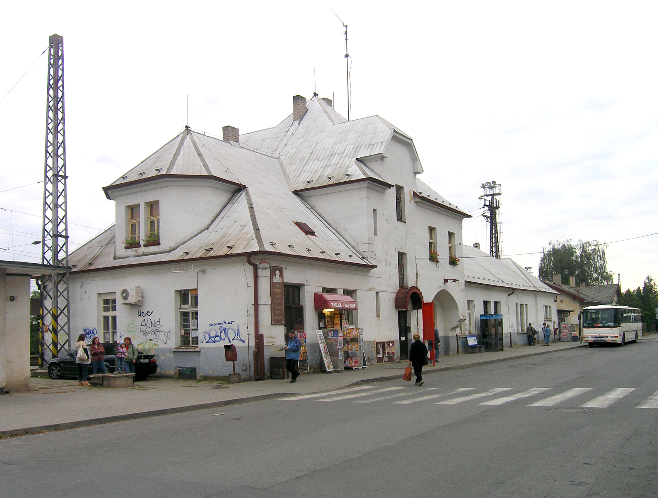 Railway station in Úvaly, Czech Republic